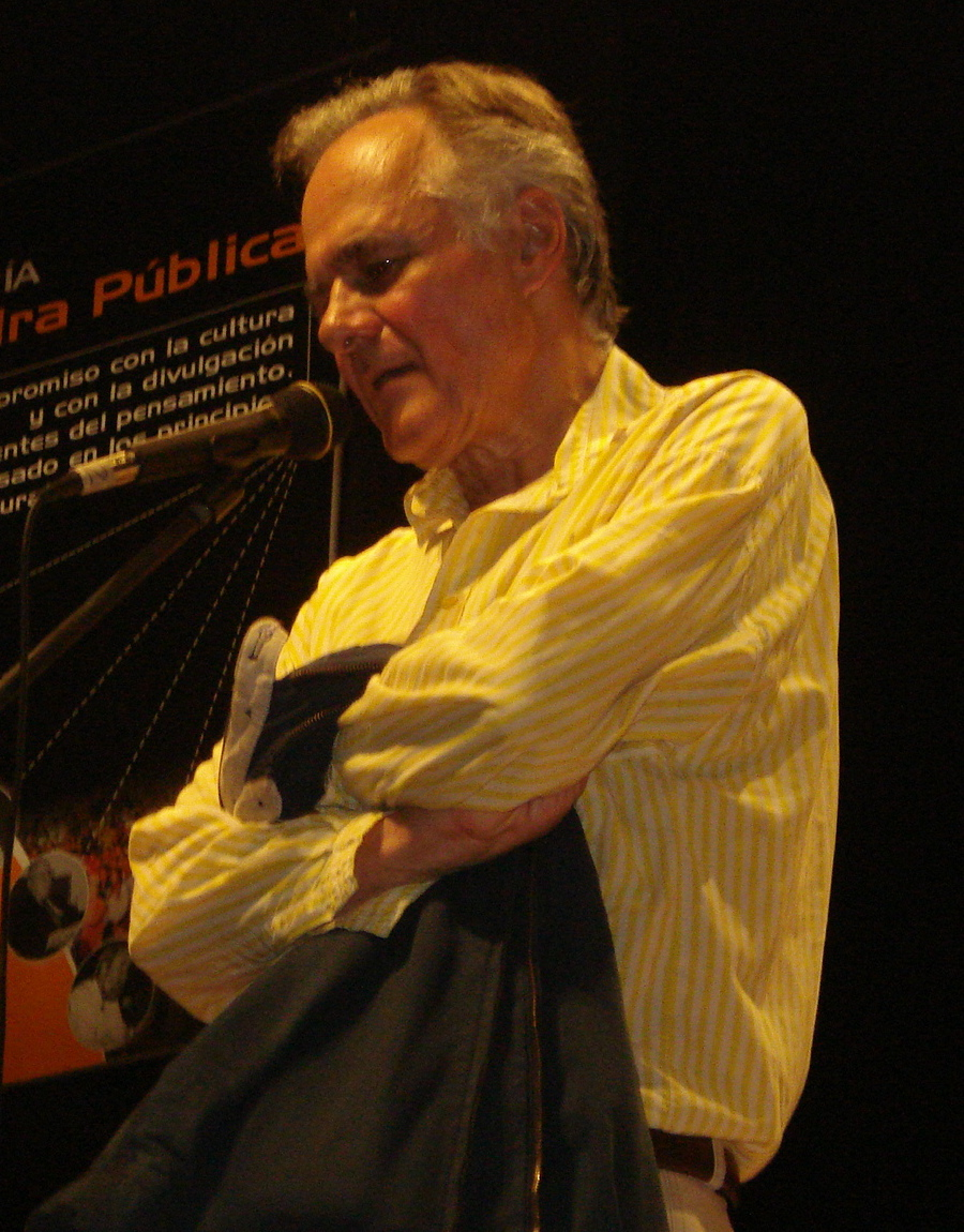 Fernando Vallejo colombian-mexican writer